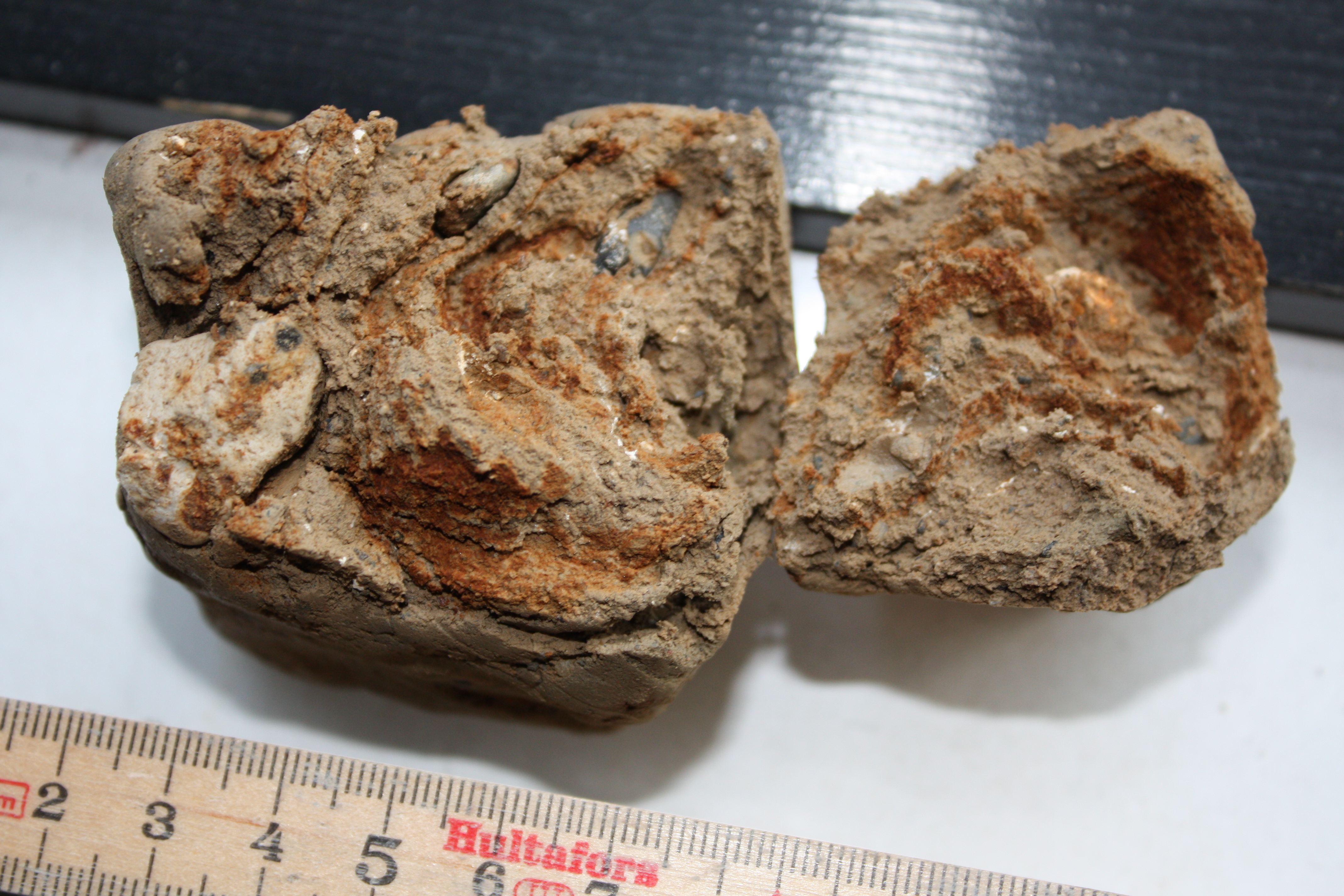 Greyish brown weathered clay till with ochre stains